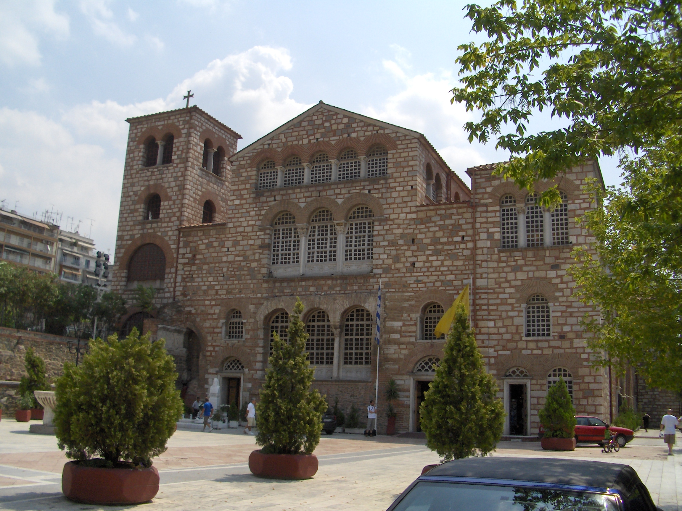 Great Church of Saint Demetrius in Thessaloniki